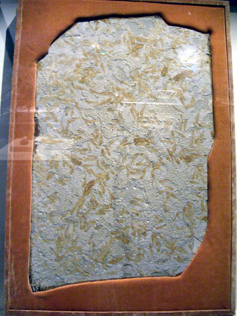 Lycoptera fossil displayed in Hong Kong Science Museum